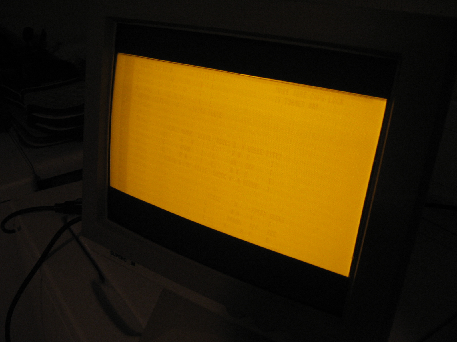 Phosphor burn-in ("screen burn") visible on an amber monochrome CRT computer monitor; shows burn-in from a spreadsheet program and a program utilizing ASCII-art. Self-made photo; own monitor; released PD.